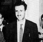 Kamal Jumblatt, leaders of the Lebanese opposition, at Shukri al-Quwatli's office in 1957. Cropped from File:Kamal Jumblatt.jpg. Photo prise avec l'autorisation du webmaster du site